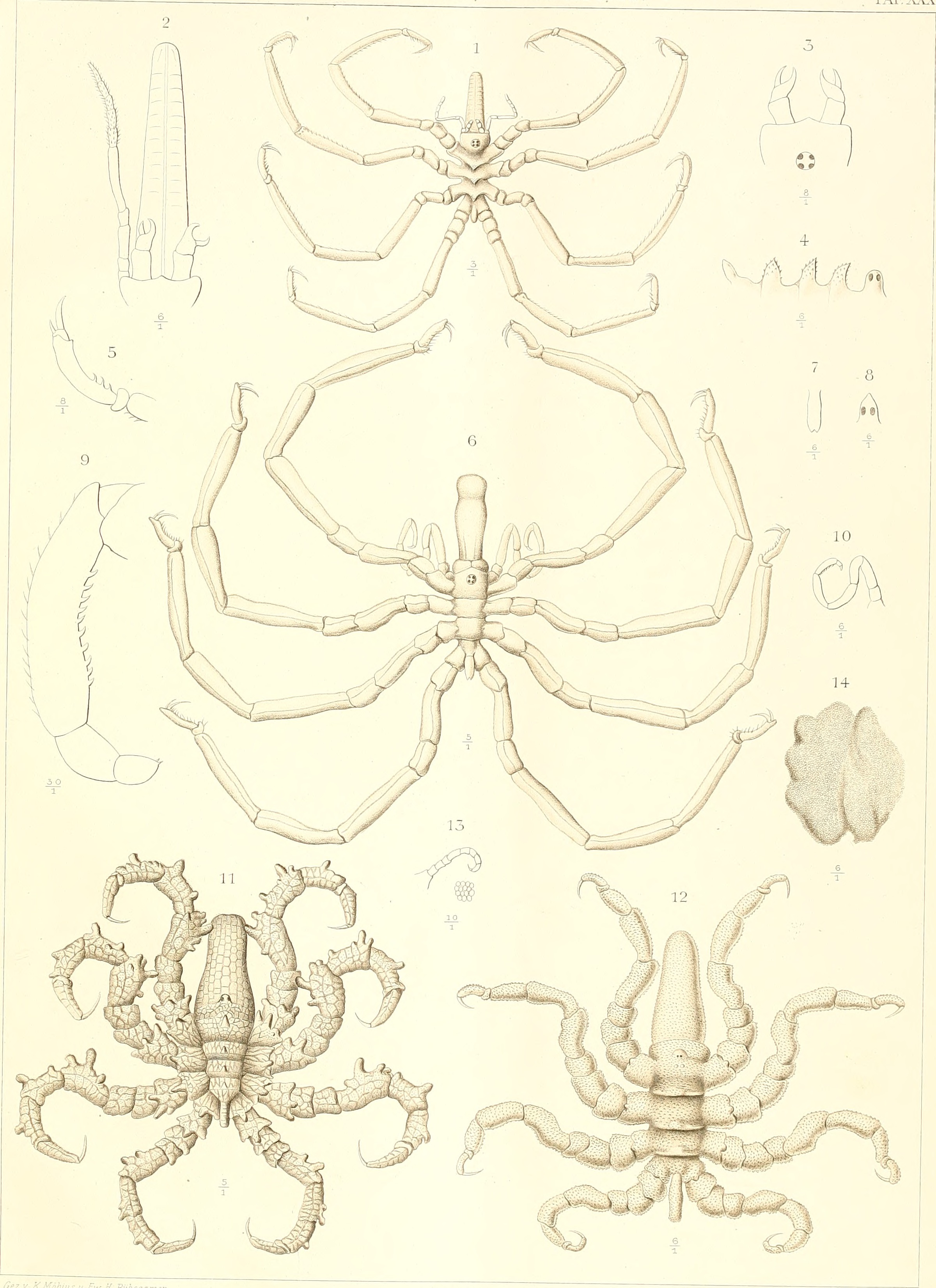 Title: Die Pantopoden der deutschen Tiefsee-Expedition 1898-1899 Year: 1902) (1900s) Authors: MÃ¶bius, Karl August, 1825-1908 Subjects: Pycnogonida Publisher: (Jena, G. Fischer Text Appearing Before Image: DEUTSCHE TIEFSKF. EXPHDIUON iSQSOq. Bd.HI K. MOB (US â PANTOPODE-N. 9 TAFXXX Text Appearing After Image: Ã¤ez.v. K.MÃ¶bms u.Â£w.H PÃ¼bsttamen TAF All. i~5 Colossetideis gibbosa Mob. â Ã¶-io Phoxichilus civpeaius Mob. n Pycnogoiimn cntnphractinit Mob. - 12-14 Pycnogoniim magnirostre Mob. ^eriag von Gustav Fischer in Jena. luiiAnst.vA.Sillsck.Jena^